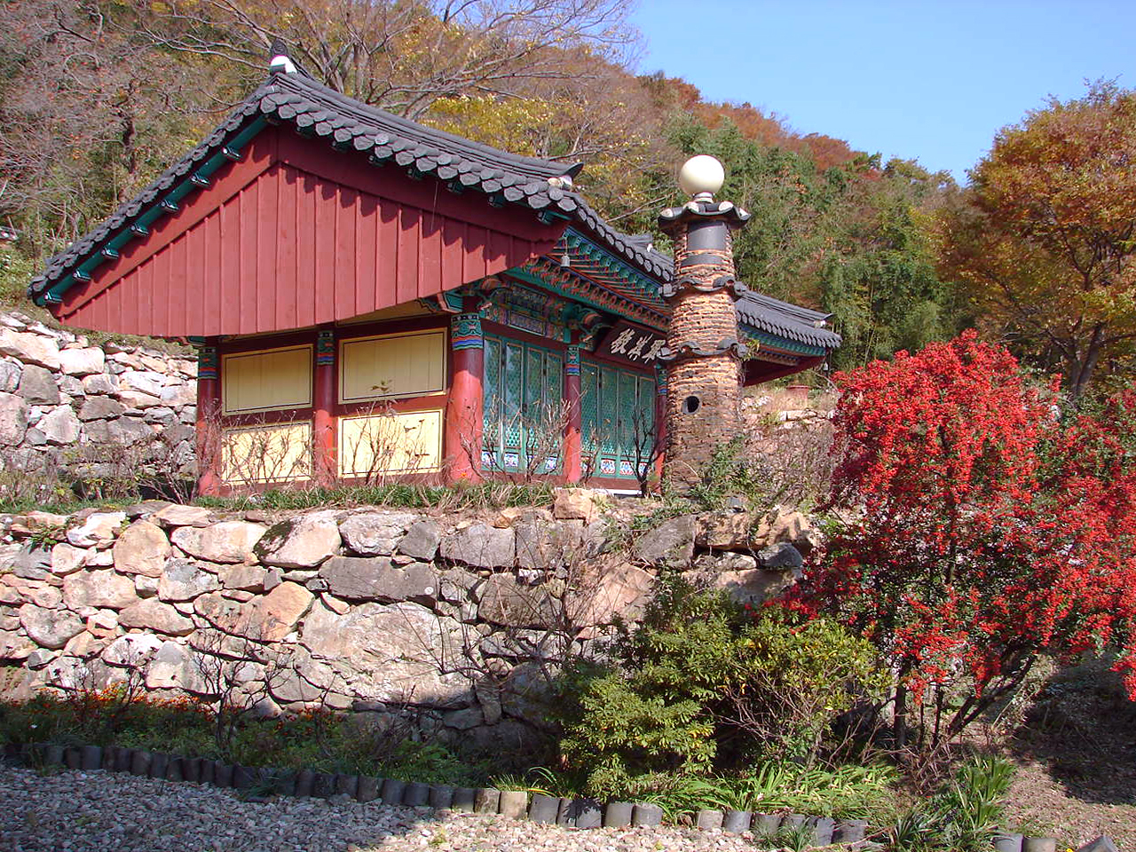 Geumtapsa is at the base of Mount Cheondeungsan in Goheung county originally dates to the 7th century when it was built as a branch of Songgwangsa Temple. One of the more prominent featuers is Natural Monument no. 239, the nutmeg forest that surrounds the temple.